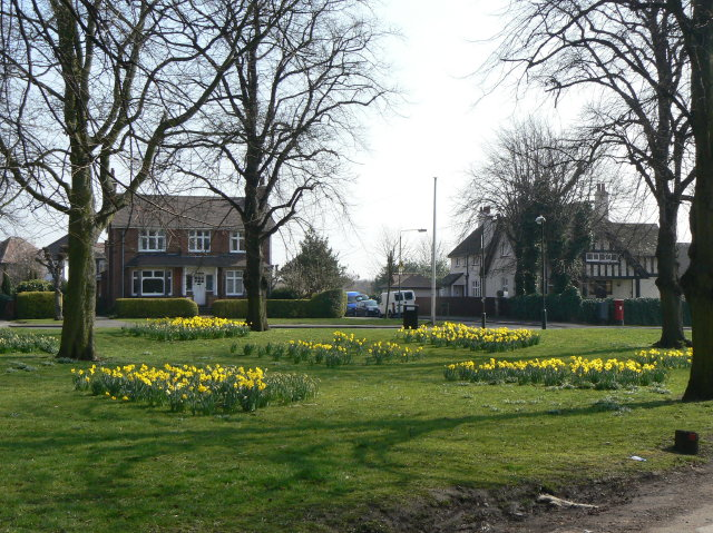 Wilford Village, The Green Not to be confused with Wilford Green, which is at the junction of main Road and Wilford Lane.